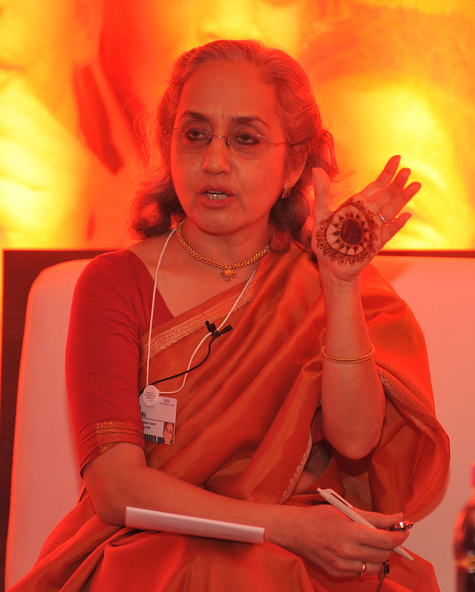 Rajni Bakshi, Fellow, Gateway House, India, at the Cultural Economics in India session during the India Economic Summit 2011 in Mumbai, India, 12-14 November, 2011.